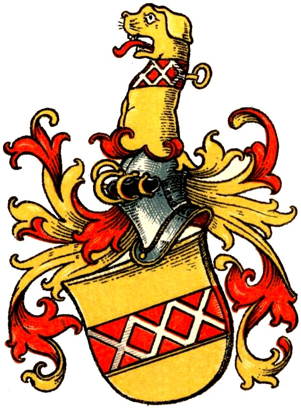 Coat of arms Buer